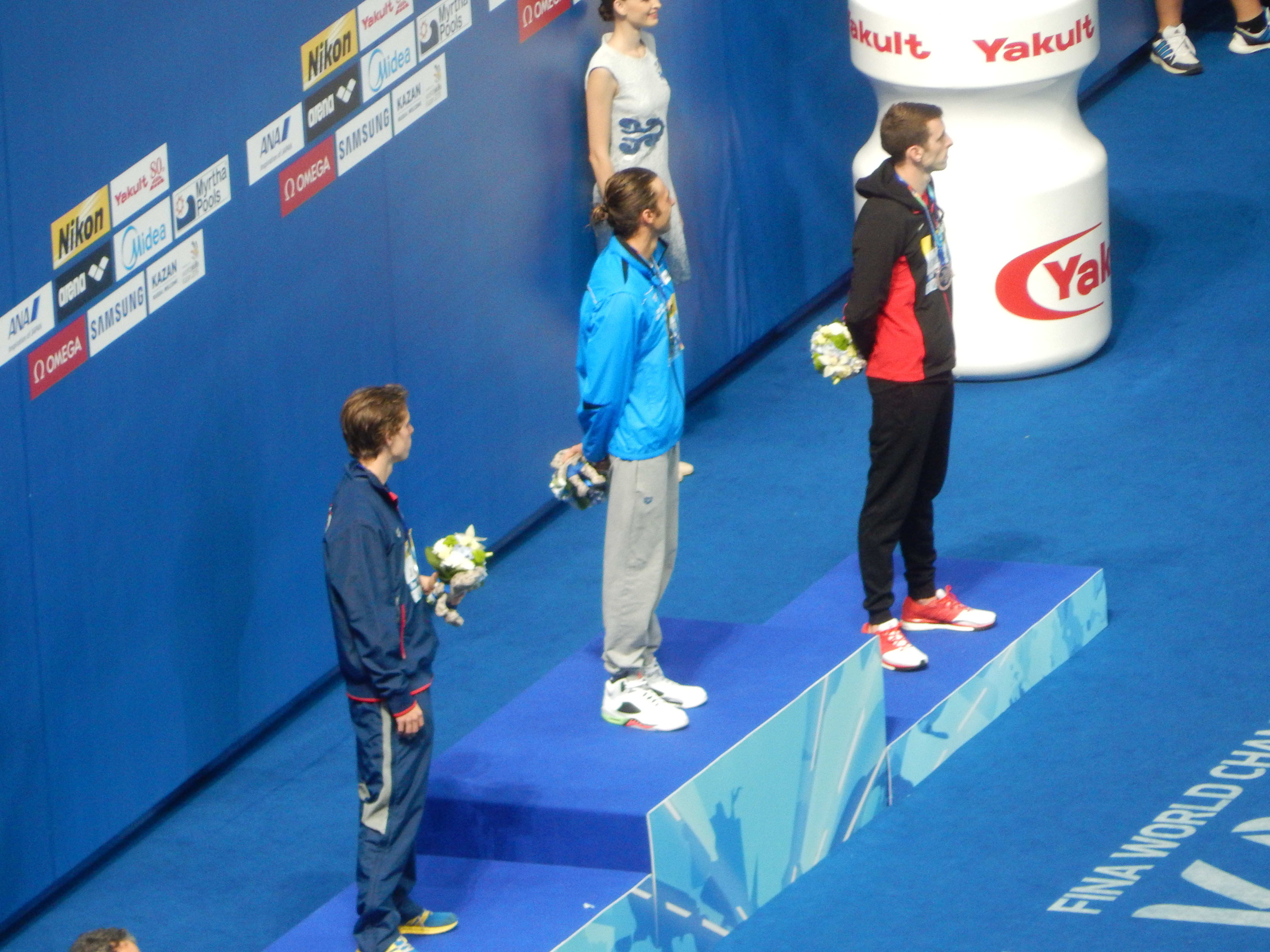 Victory Ceremony of the men's 1500 metres freestyle in Kazan 2015